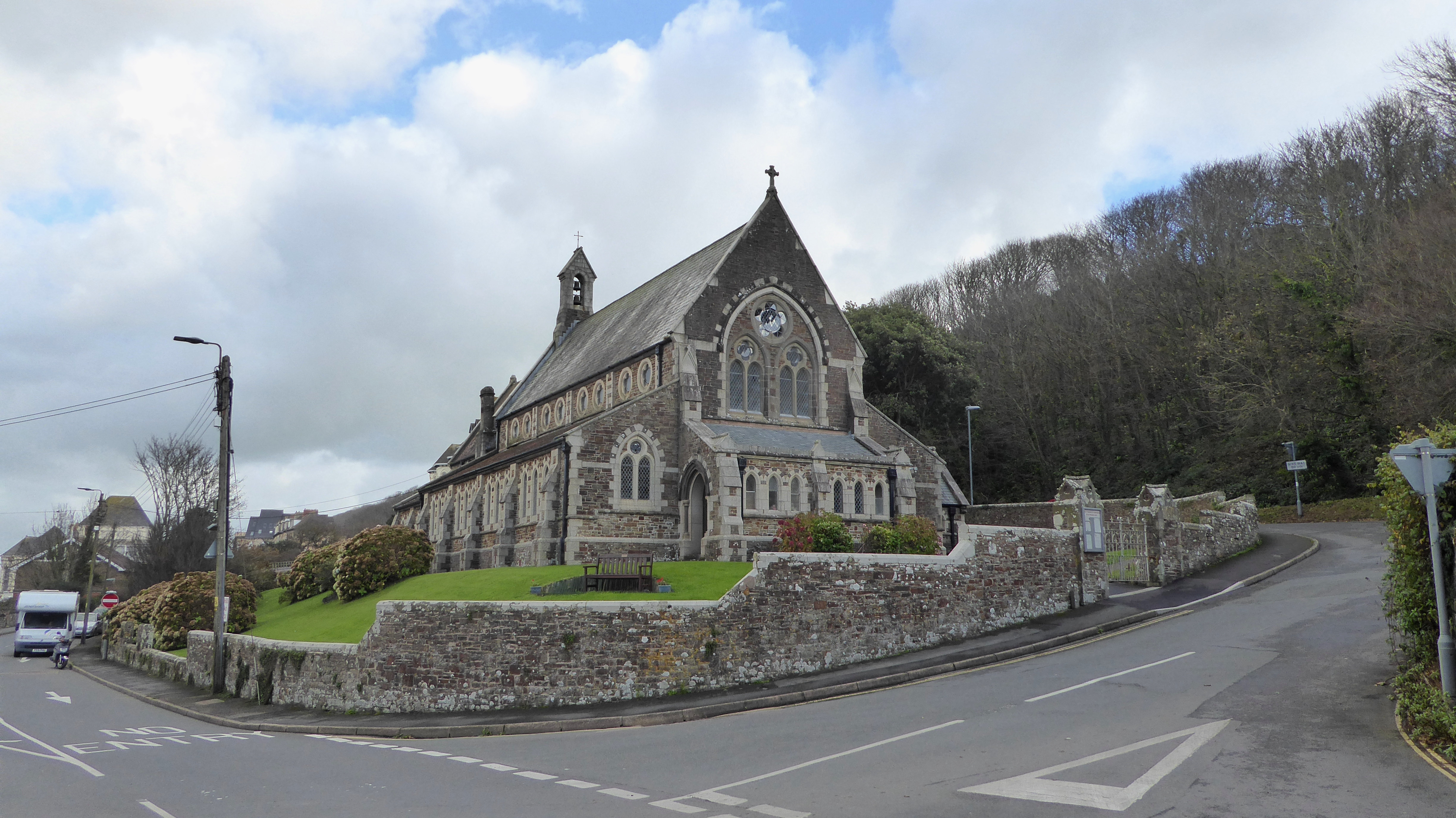 Holy Trinity parish church, Atlantic Way, Westward Ho!, Devon, seen from west-northwest